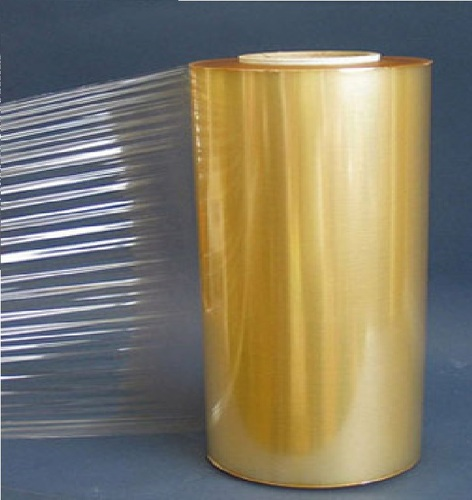 PVC film can be of different colours, but it's natural colour is champagne colour.